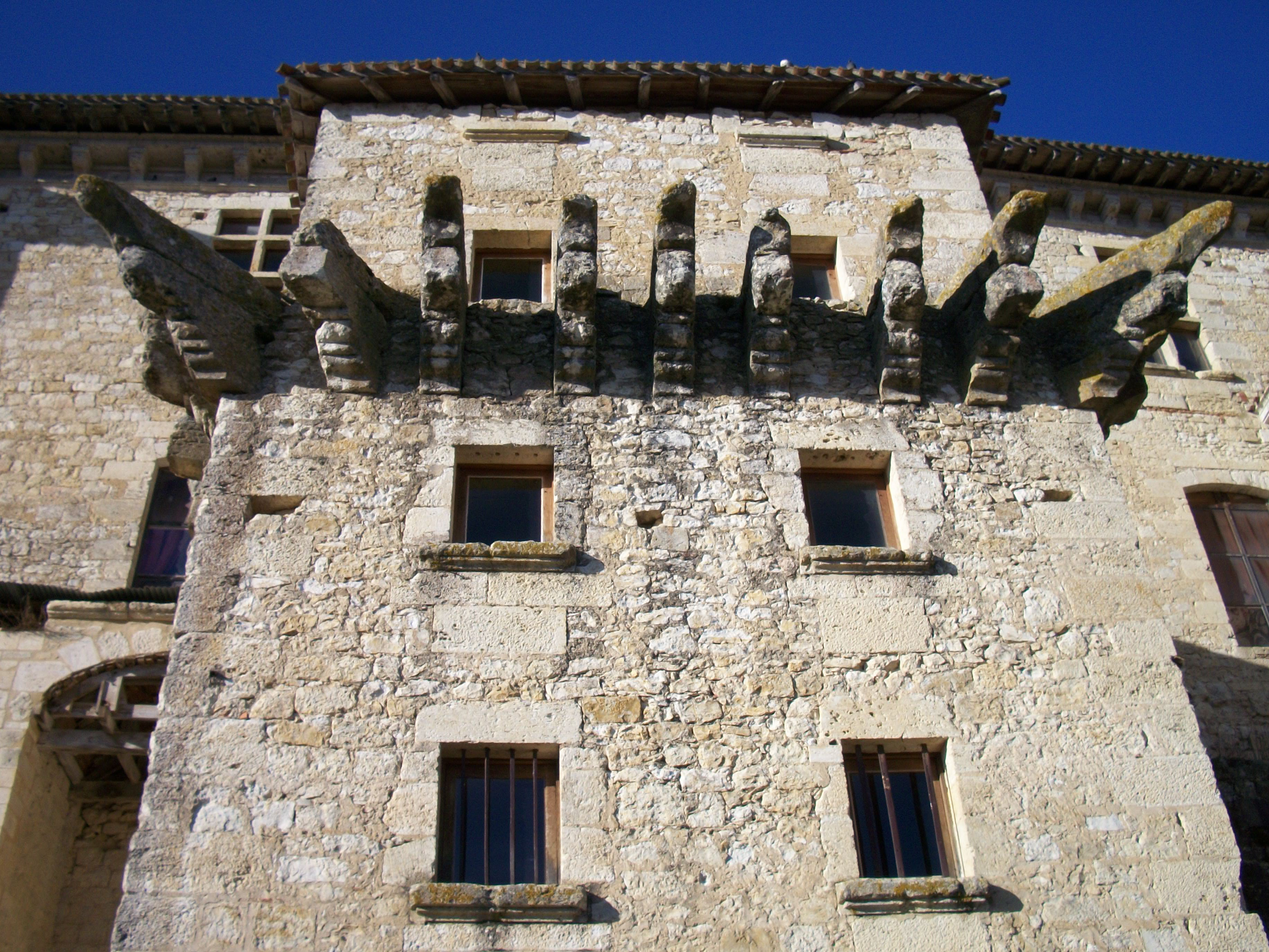 Architectural element of Château de Lavardens, Gers, France